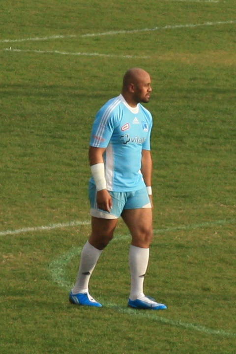 The rugby union player from New Zealand Jonah Lomu playing for the French club Marseille